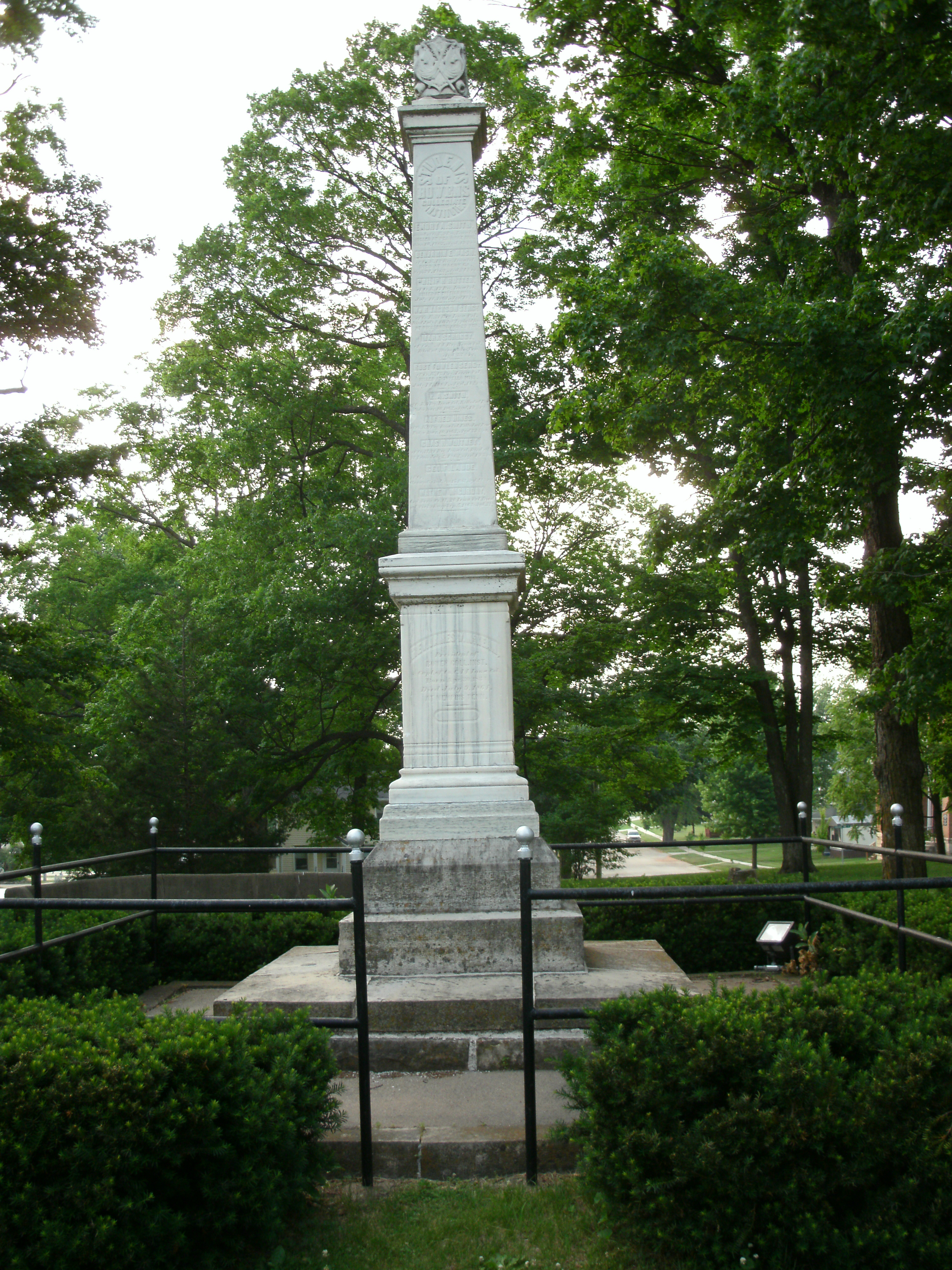 The Civil War Monument is located on the historic Lennox College campus in Hopkinton, IA. The entire campus is on the National Register of Historic Places.